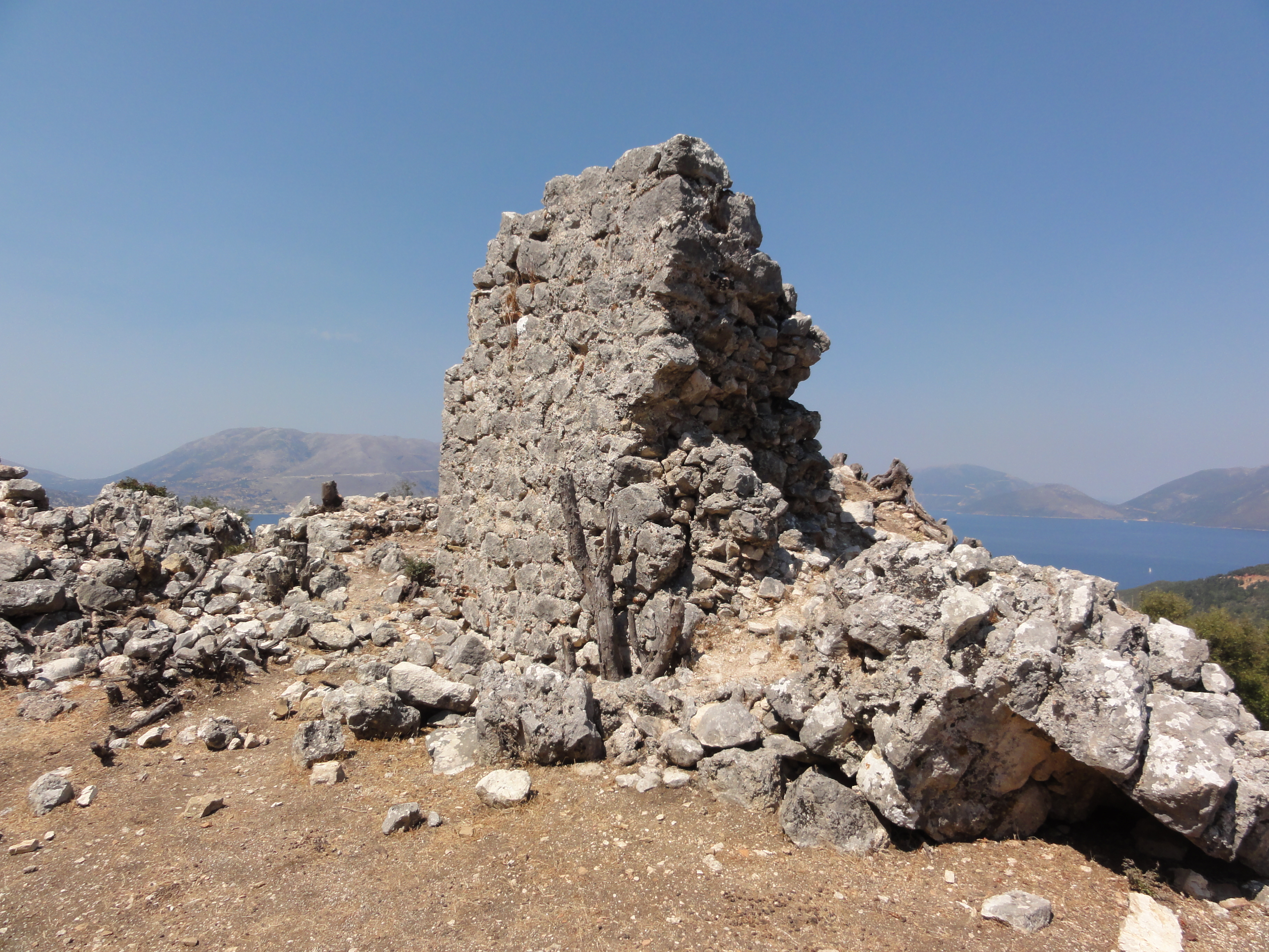 Photographs taken in Kefalonia.